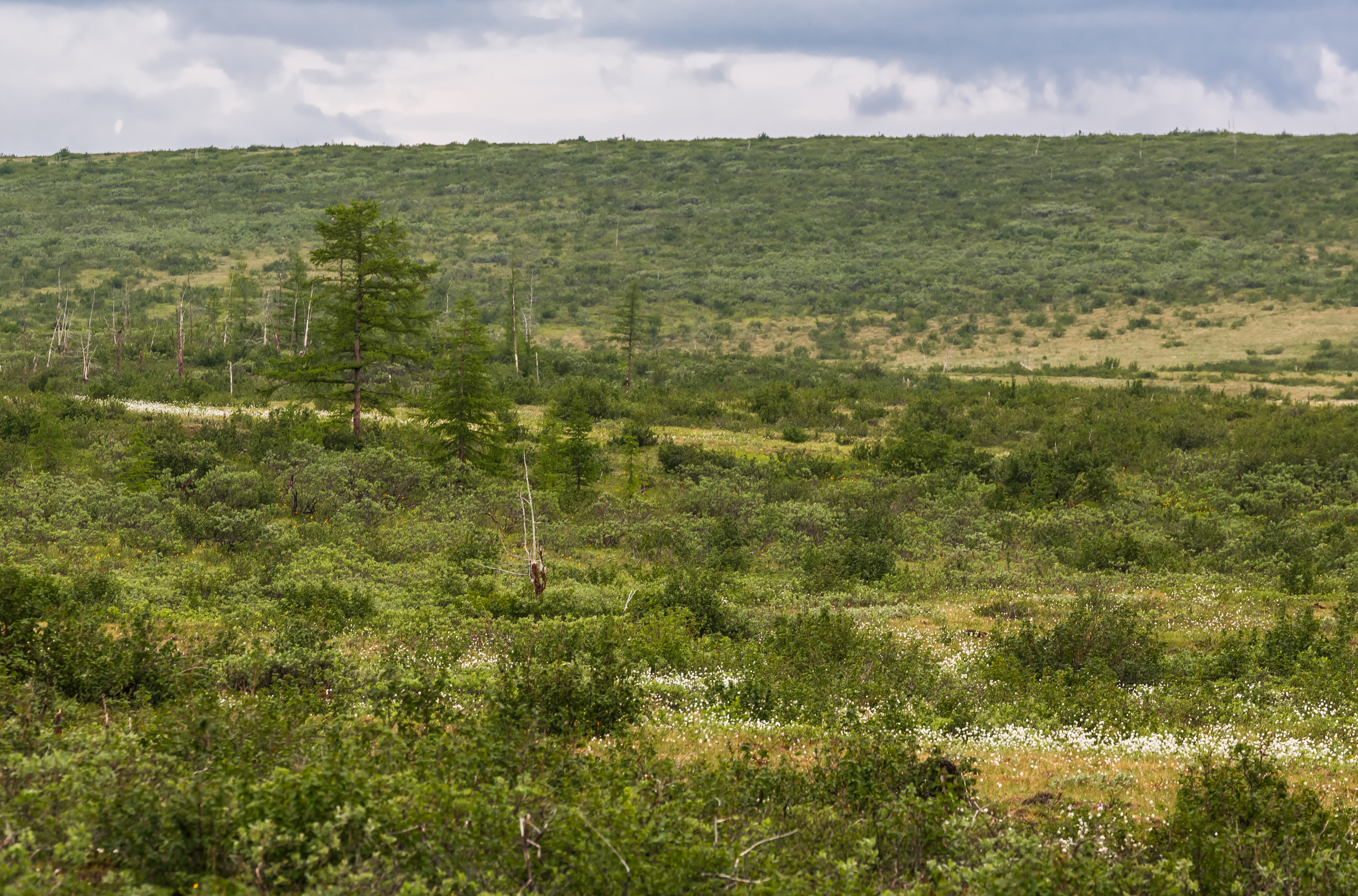 Forest Tundra on the Taymyr Peninsula between Dudinka and Norilsk near Kayerkan